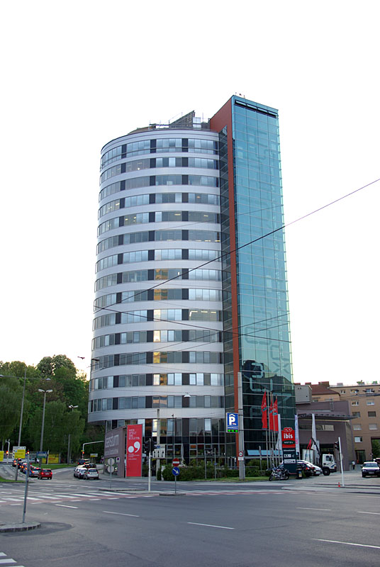 The tower "Turm des Wissens" in Linz